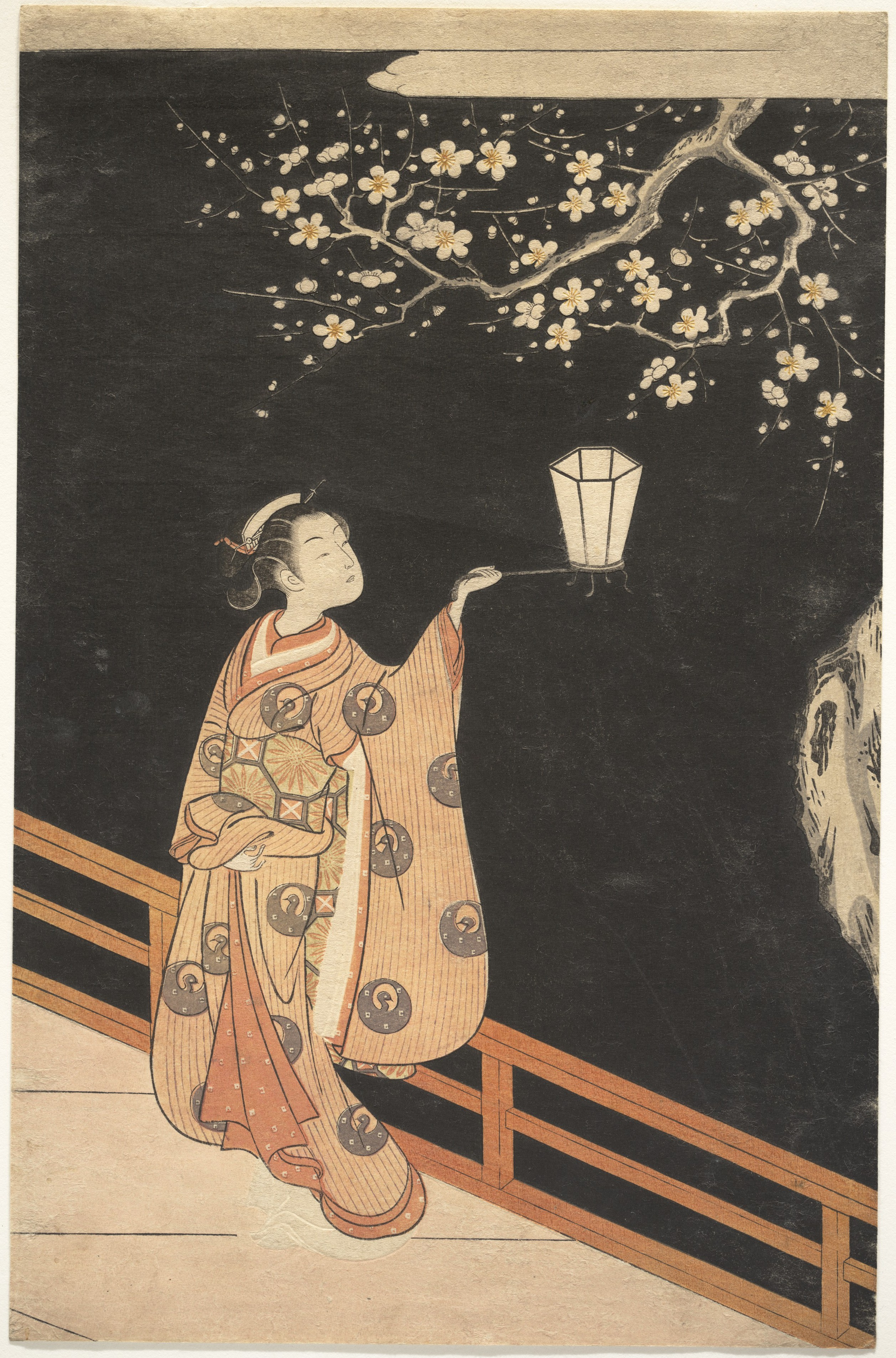 Ukiyo-e print by Japanese artist Suzuki Harunobu.